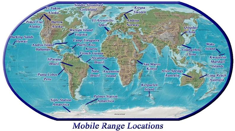 NASA Wallops Flight Facility Worldwide Launch Locations